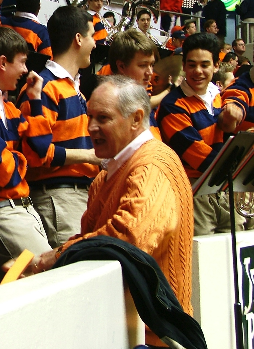 Al Groh visits the student section at a University of Virginia basketball game against Clemson University